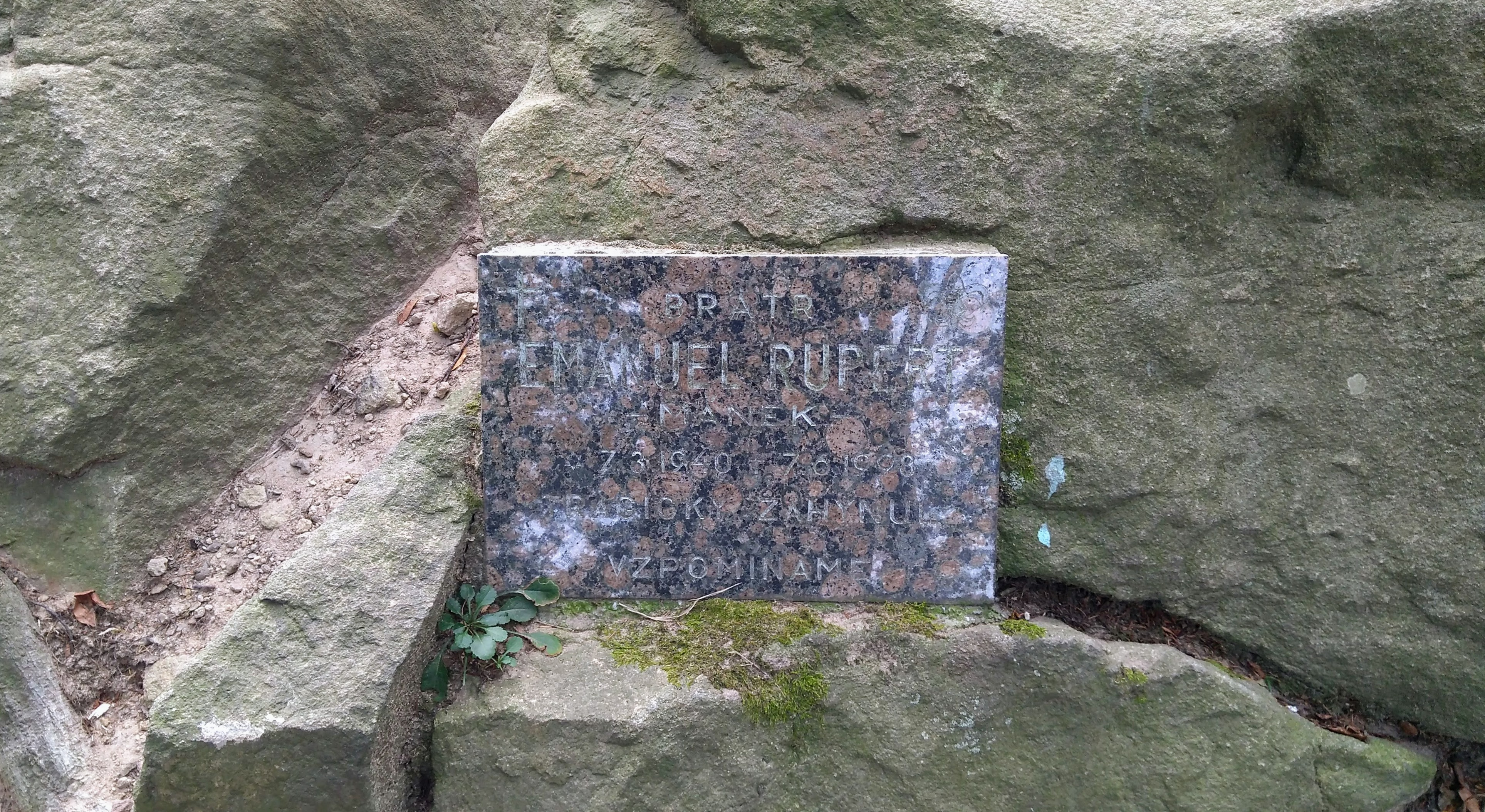 Kostelany, Kroměříž District, Czechia. Komínky natural monument.